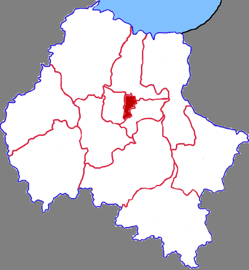 Location of Kuiwen district in Weifang City, China